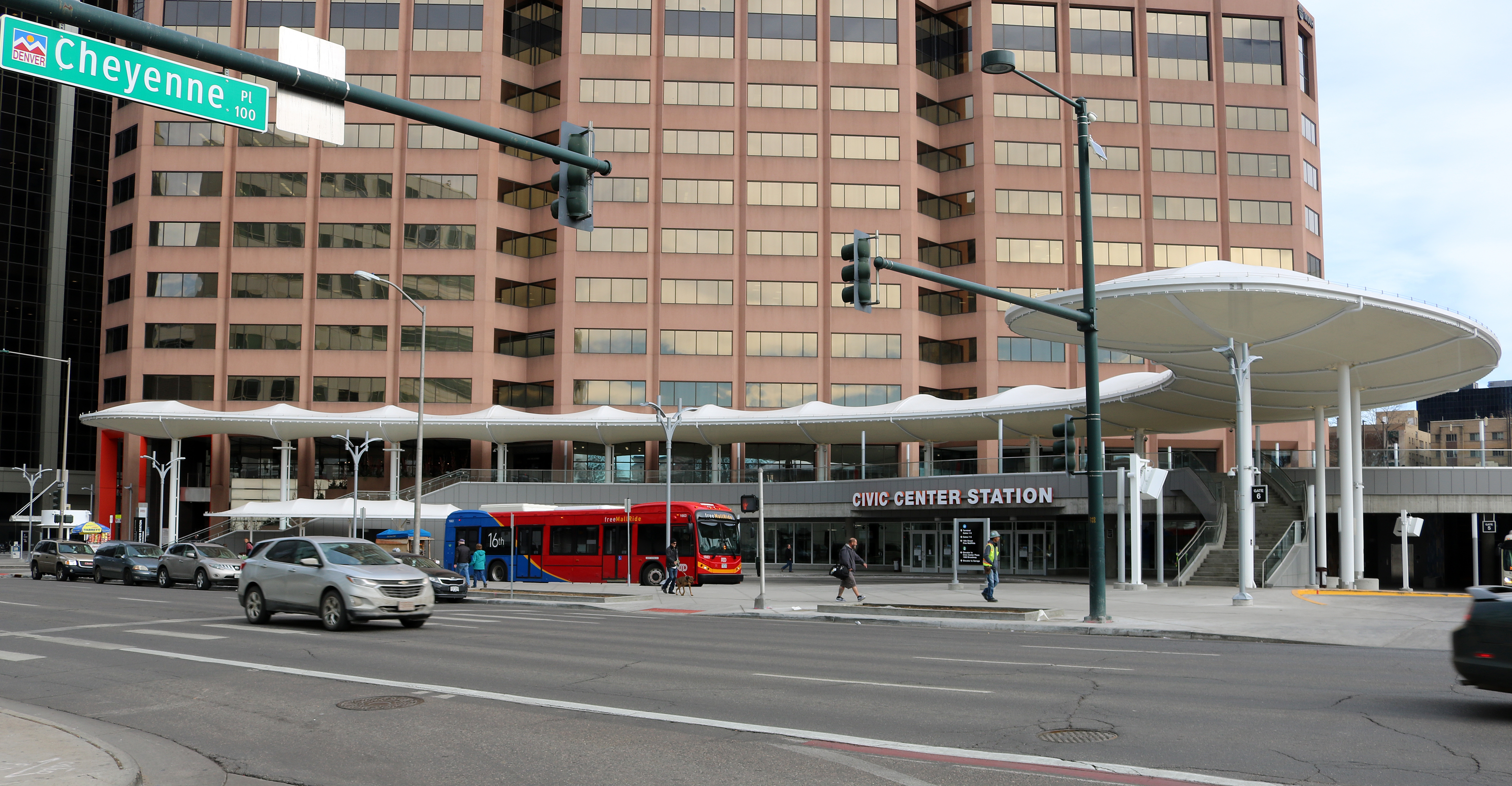 The Denver RTD Civic Center Station, located at 1550 Broadway in Denver, Colorado. The picture shows the station after the 2017 renovations were completed.